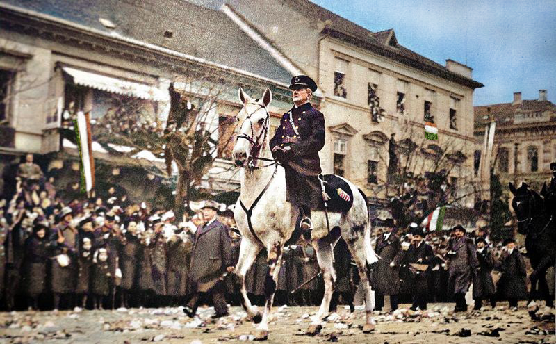 Colorized photo of Hungarian regent Miklós Horthy on a white horse during the march in Kosice in 1938.